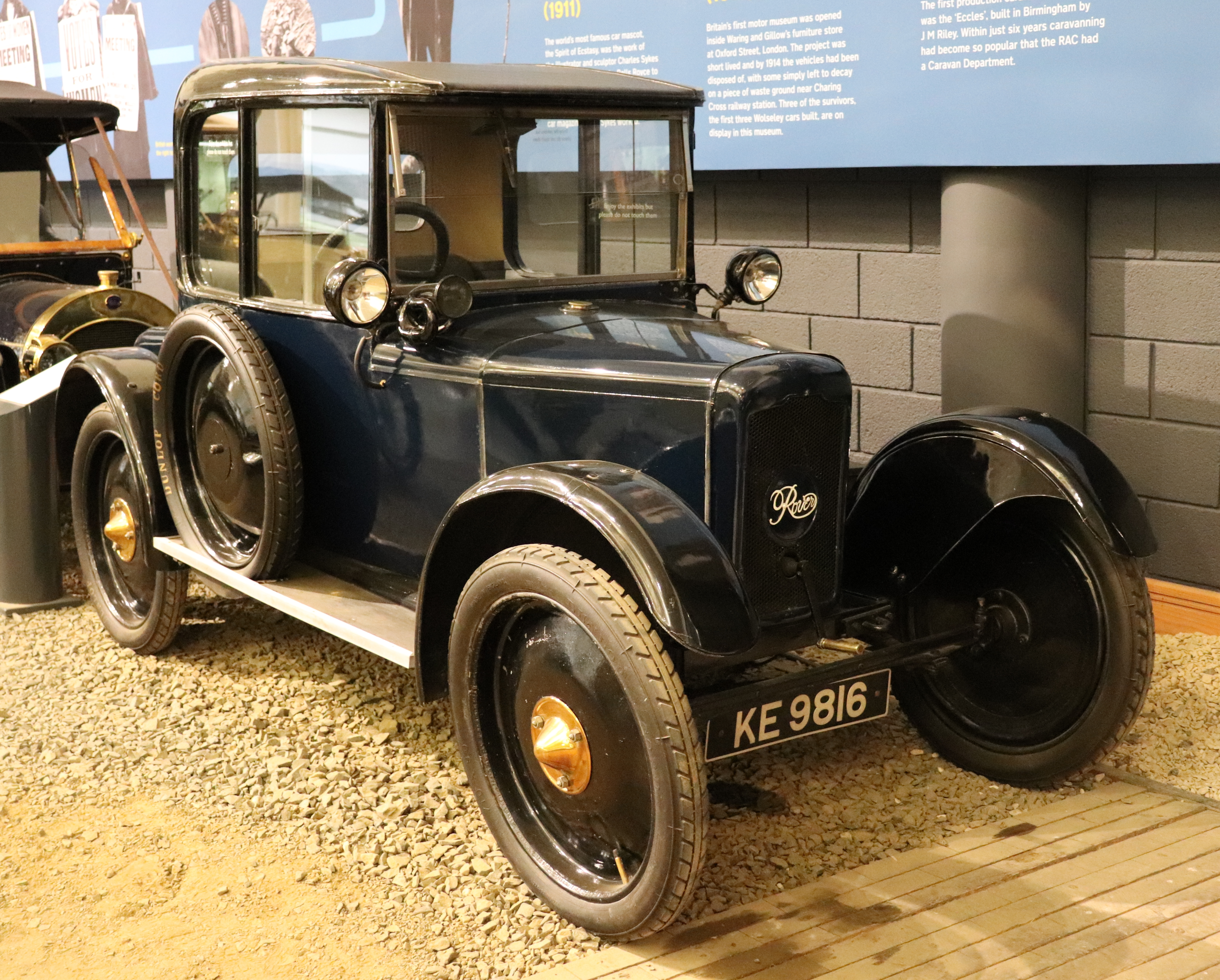 1922 Rover Eight 1.0 Front Taken at the British Motor Museum, Gaydon